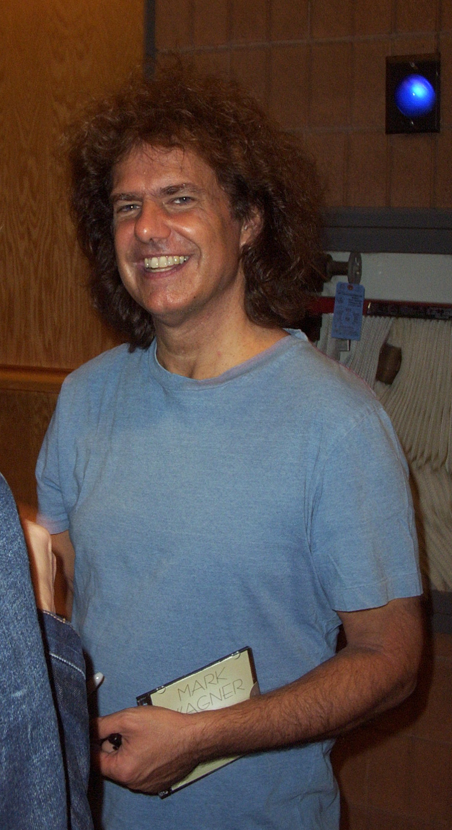 2003 Pat Metheny Trio tour in Pittsburgh, PA